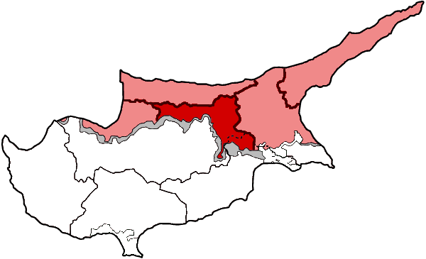 Locator map of the current de facto district of Lefkoşa (Nicosia) in Northern Cyprus.